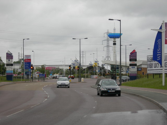 Armada Way approaching Gallions Reach Looking towards a major retail development.